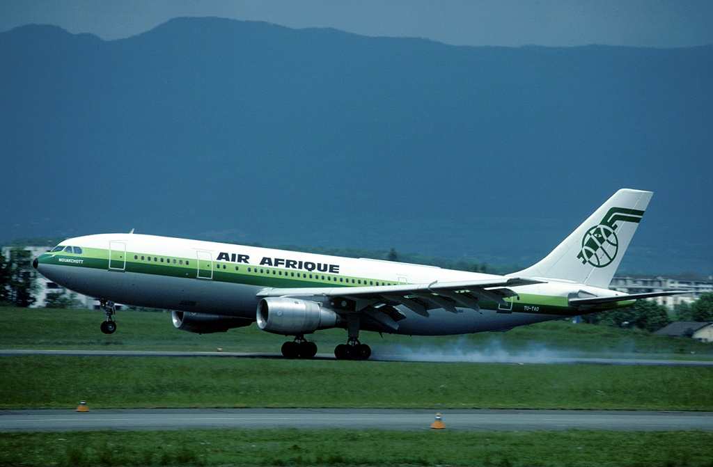 An Air Afrique Airbus A300B4-203 lands at Geneva Airport (GVA / LSGG)